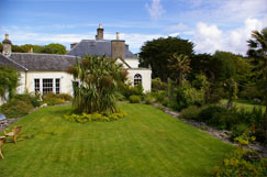 The Loggia Garden at Colonsay House Gardens. Isle of Colonsay, Inner Hebrides, Argyll, Scotland.